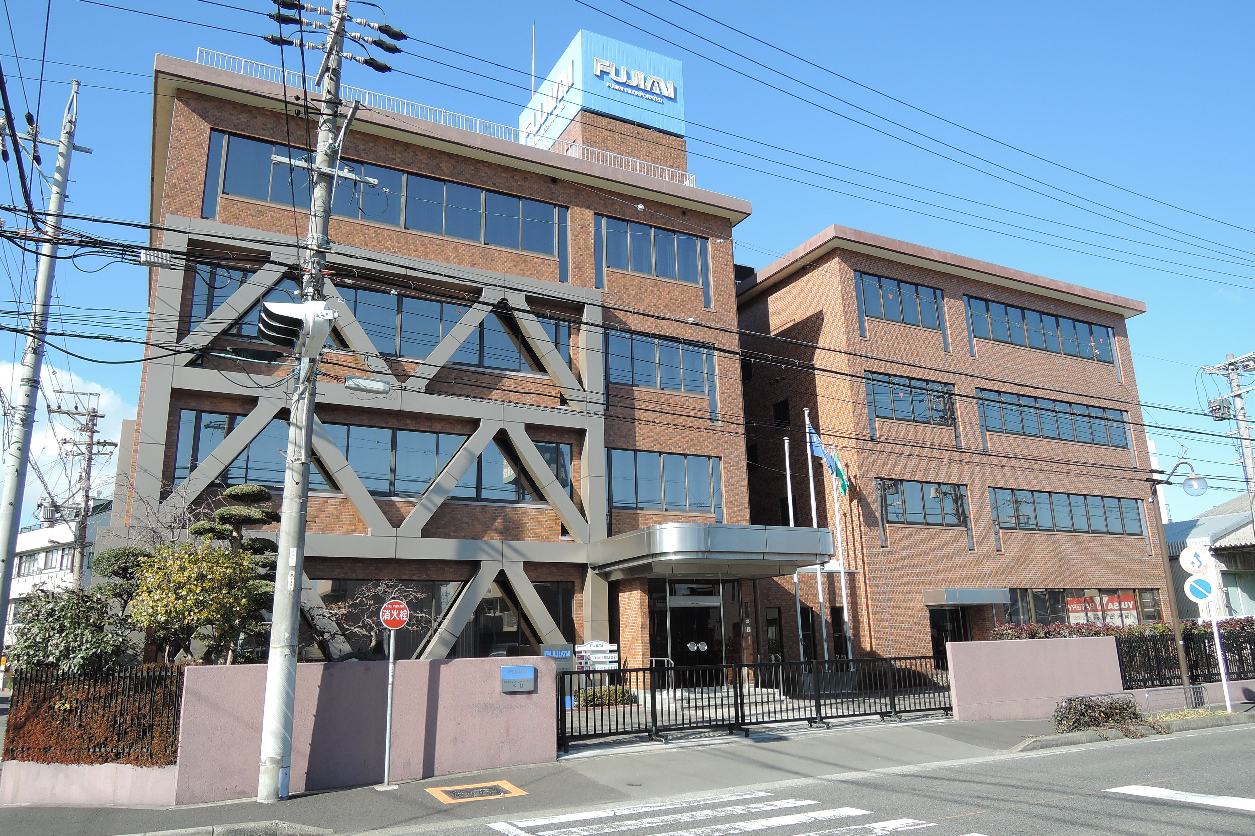 Headquarters of Fujimi Incorporated,Aichi prefecture,Japan